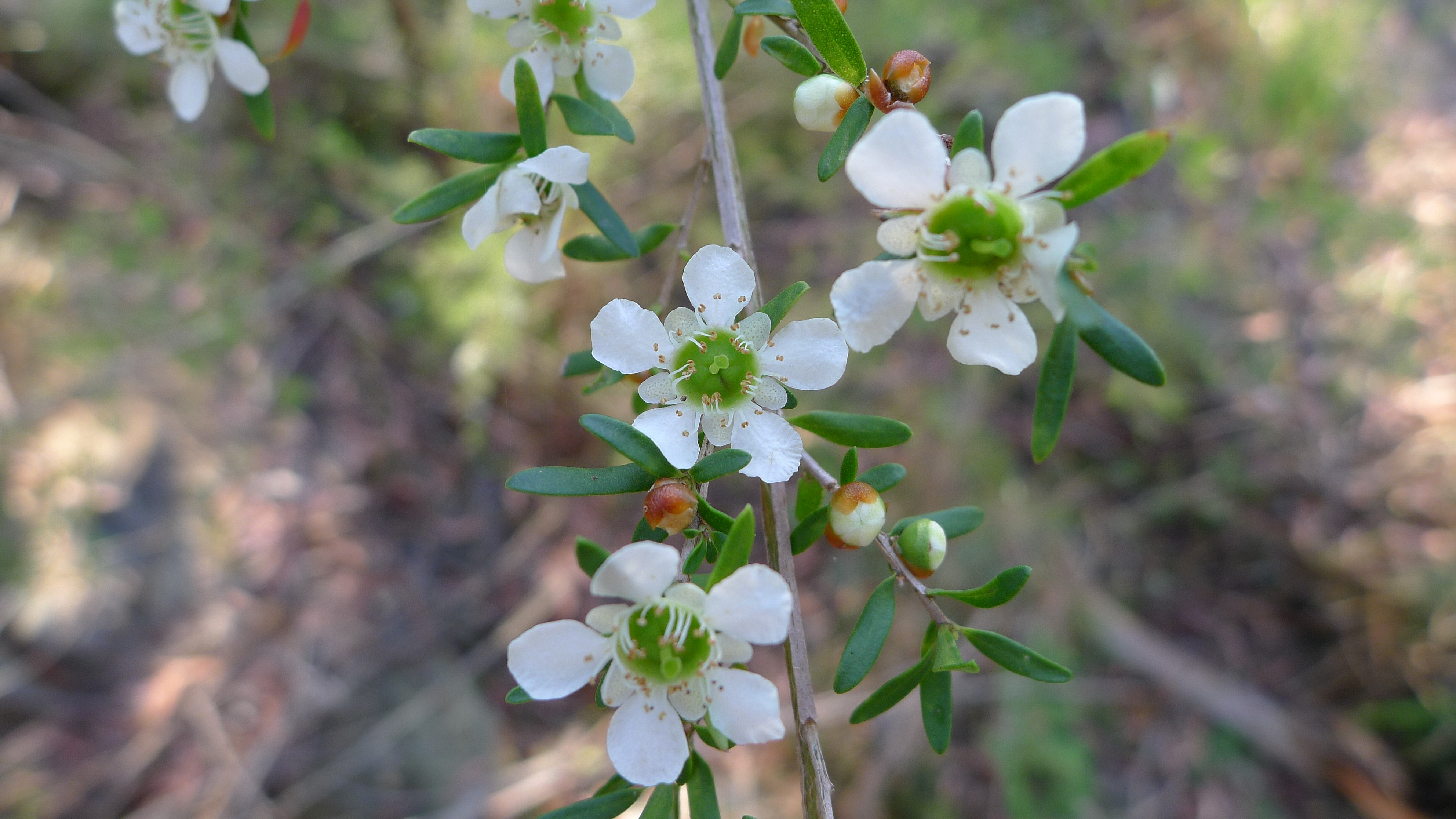 Leptospermum polygalifolium. Prince Edward Park, Woronora NSW Australia, October 2011.